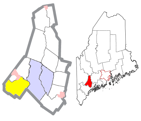 Map of the divisions of Androscoggin County, Maine, United States, with the town of Poland highlighted in yellow. The cities of Auburn and Lewiston are light blue; other towns are white; and pink areas are census-designated places within towns.